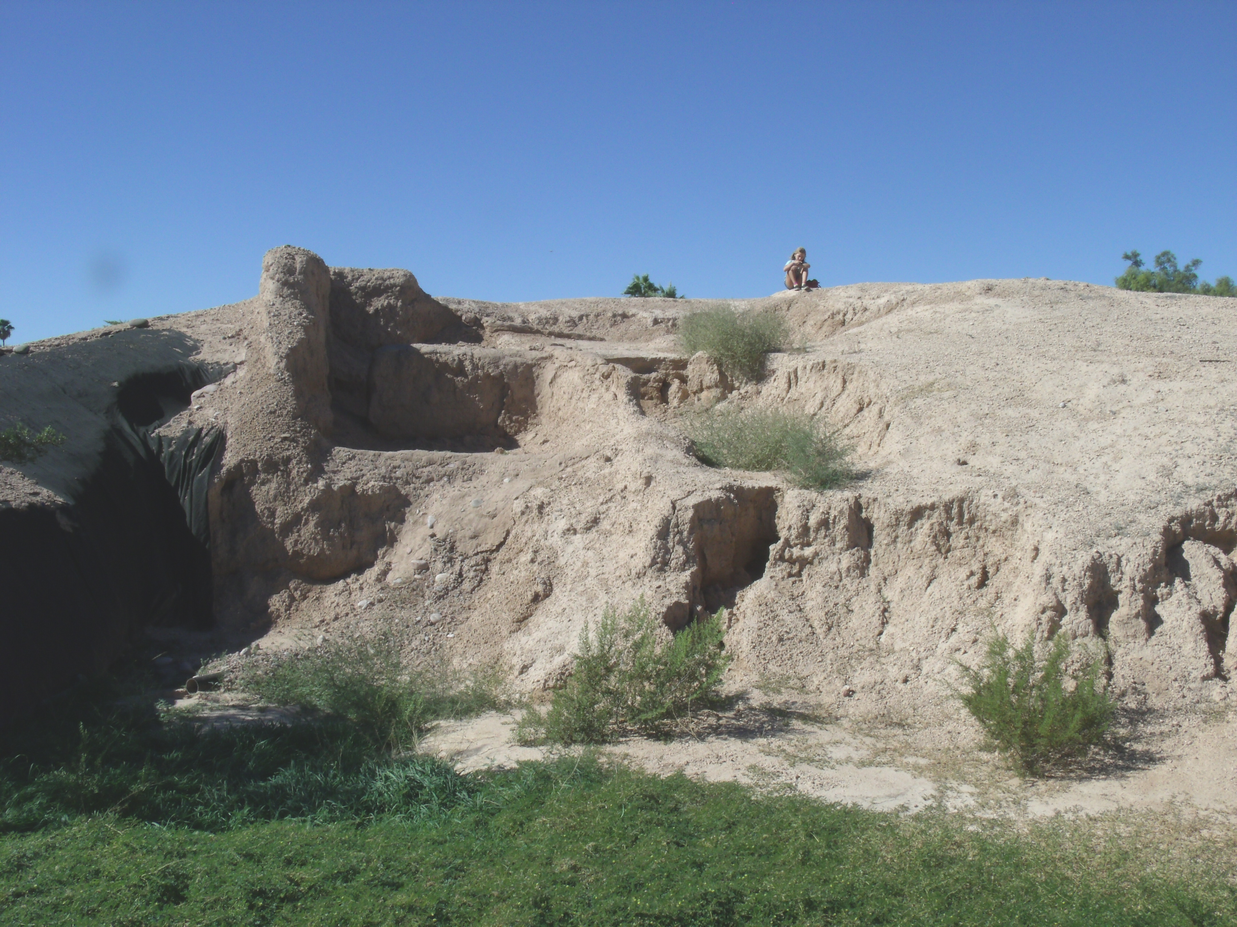 The Mesa Grande Temple Mound is located in the Mesa Grande Cultural Park at 1000 N. Date St. Built by the Hohokam in 1100 AD. The walls are made of “caliche”, the calcium carbonate hardpan that forms under the desert soils. The mound is longer and wider than a modern football field (note: U.S. Football) and is 27 feet high. The Mesa Grande Cultural Park was listed in the National Register of Historic Places in November 21, 1978, reference number 78000549. Pictured is Nina Skrdla-Santiago, my (Tony the Marine) granddaughter.